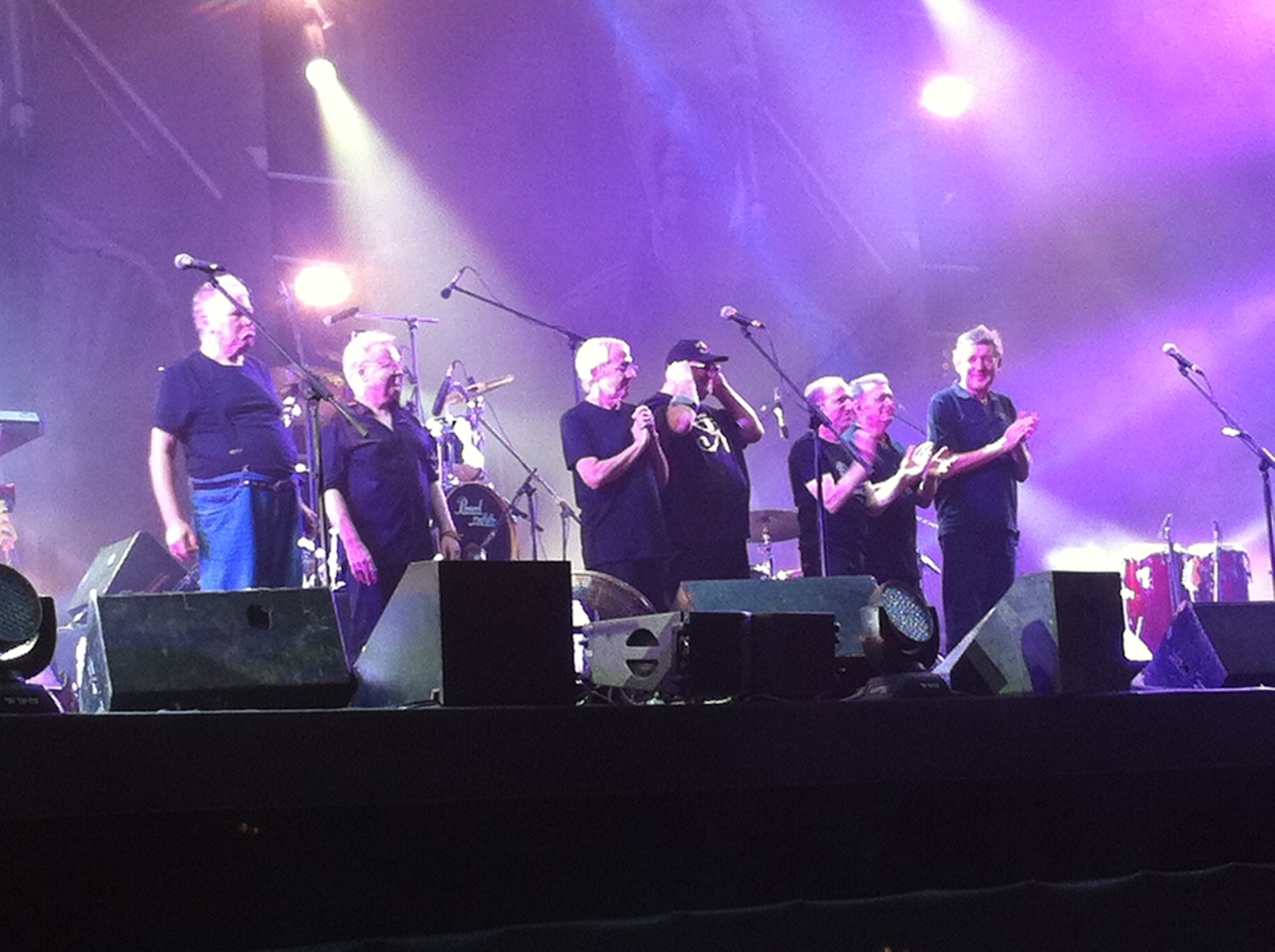 Kaveret, The Last Reunion, 7 August 2013